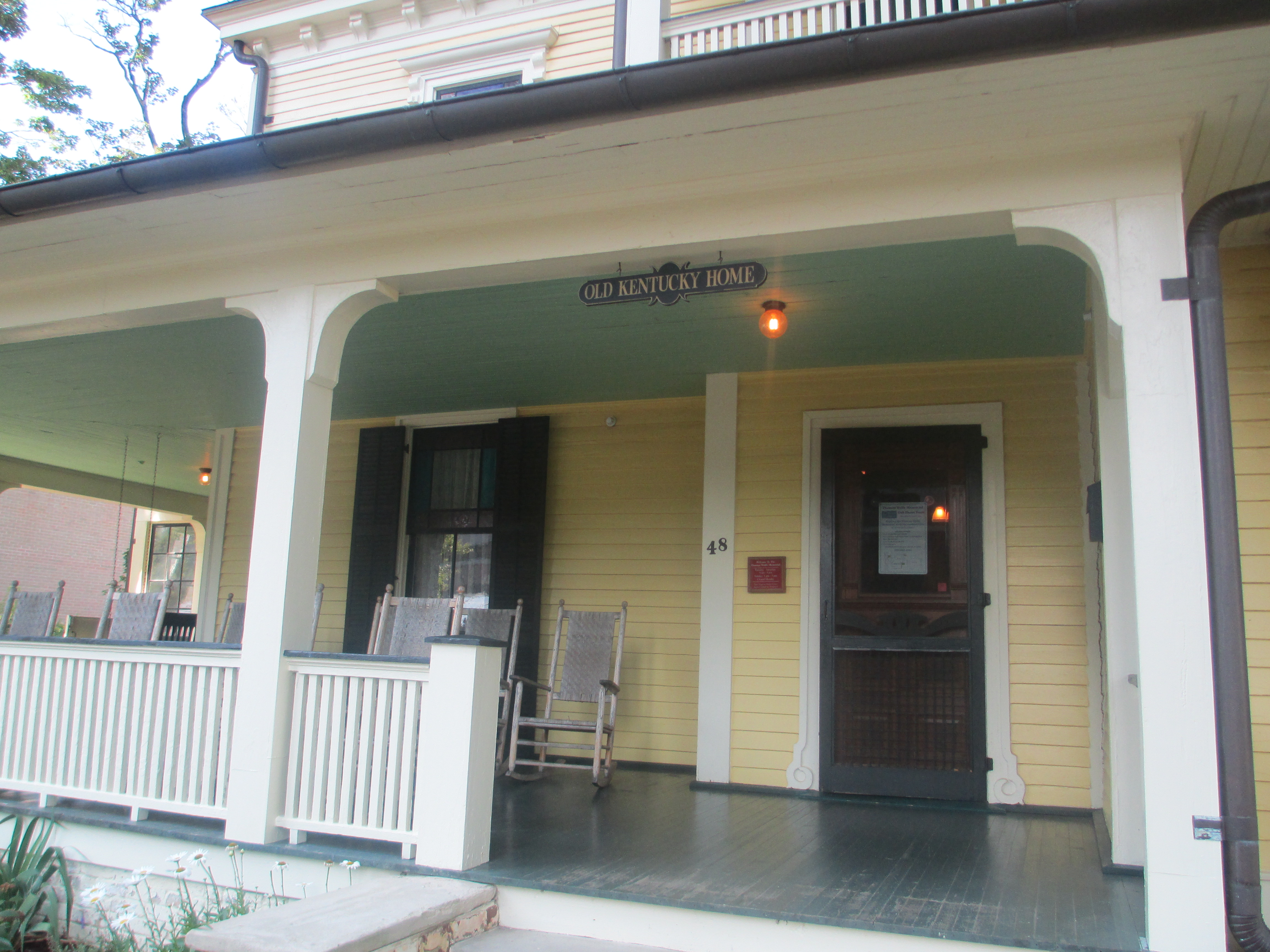 I took photo at Thomas Wolfe House with Canon camera.